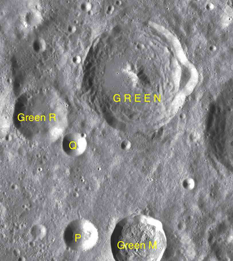 Part of the chart LAC-66 used for the presentation